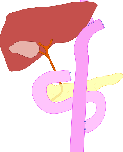 simple diagram of total gastrectomy with Roux-en-Y